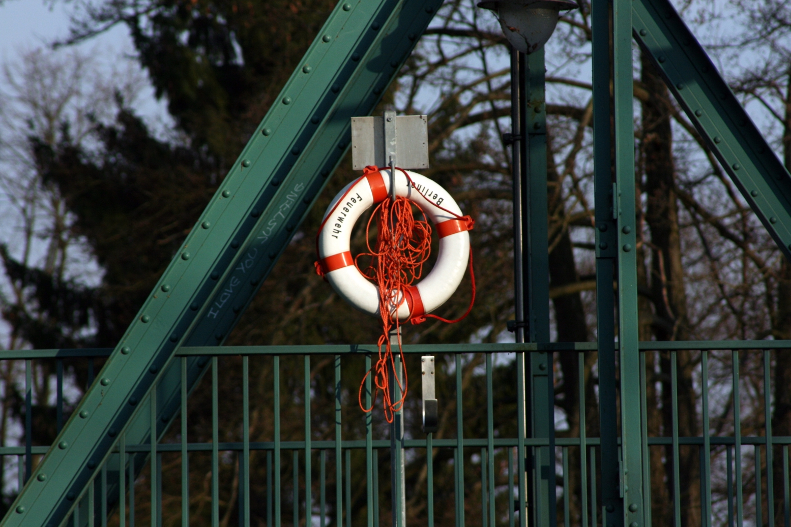 A lifebelt of the Berlin fire department on the Triglawbrücke in Rahnsdorf, Treptow-Köpenick, Berlin.